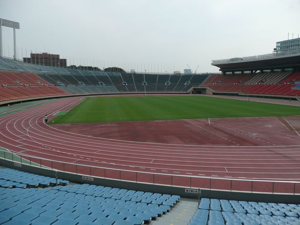 The national arena. 国立競技場, Shibuya.